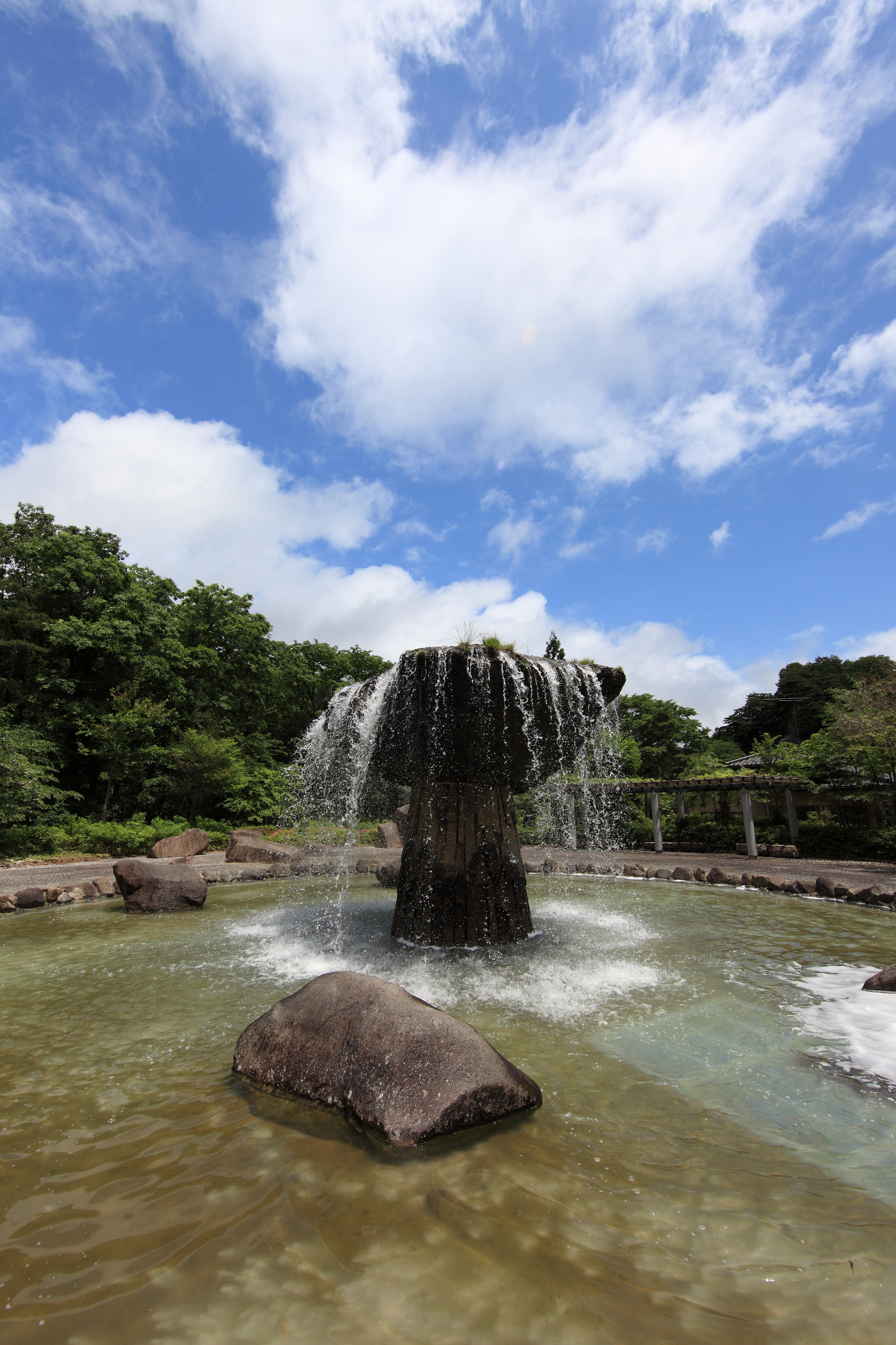 The fountain in the Zaimokuiwa Park, Shiroishi, Miyagi.